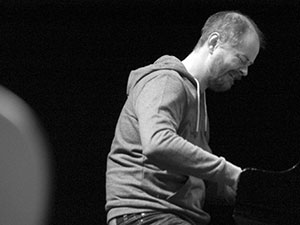 Haavard Wiik